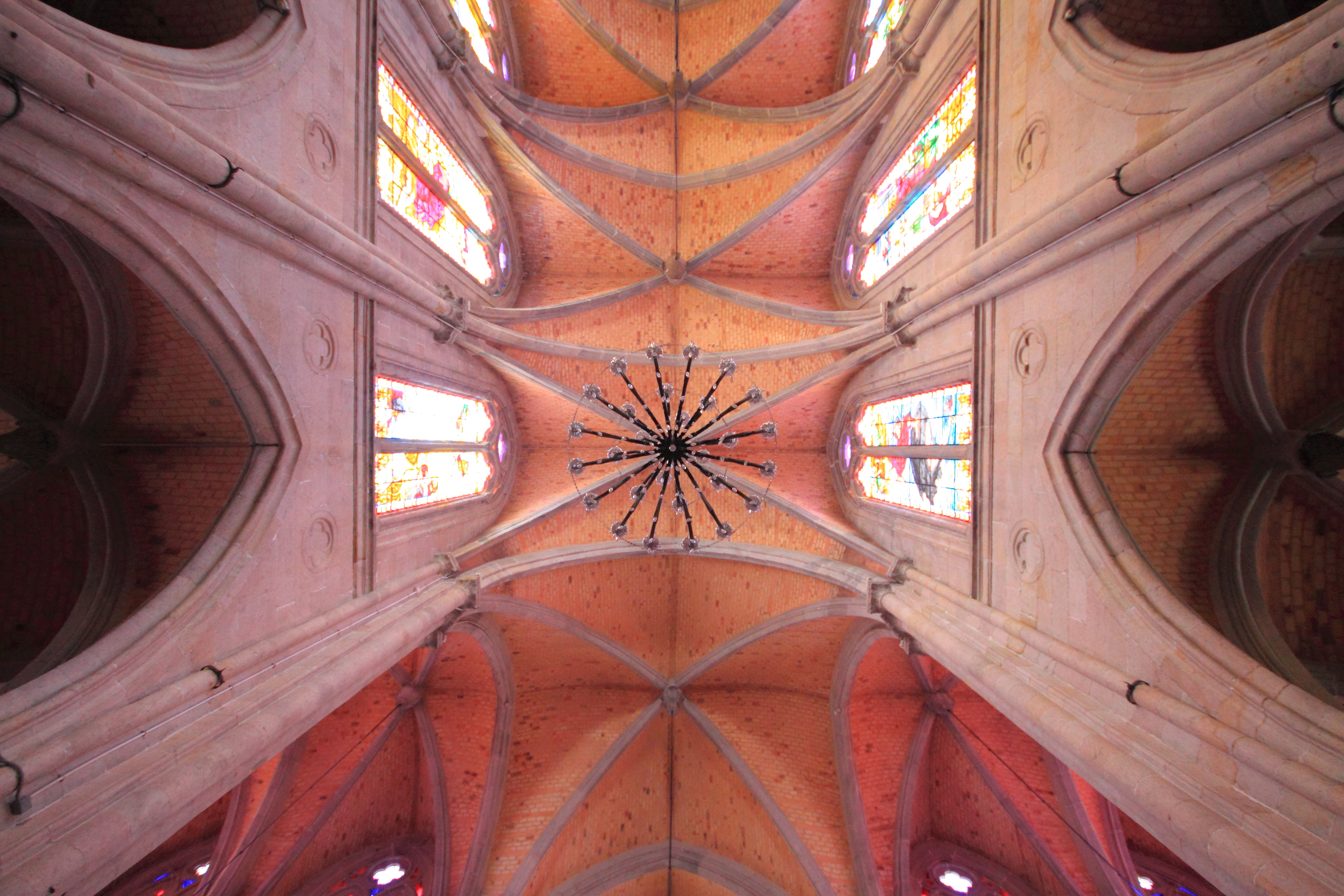 Sacred Heart Cathedral of Guangzhou，in Guangzhou, Guangdong, China.